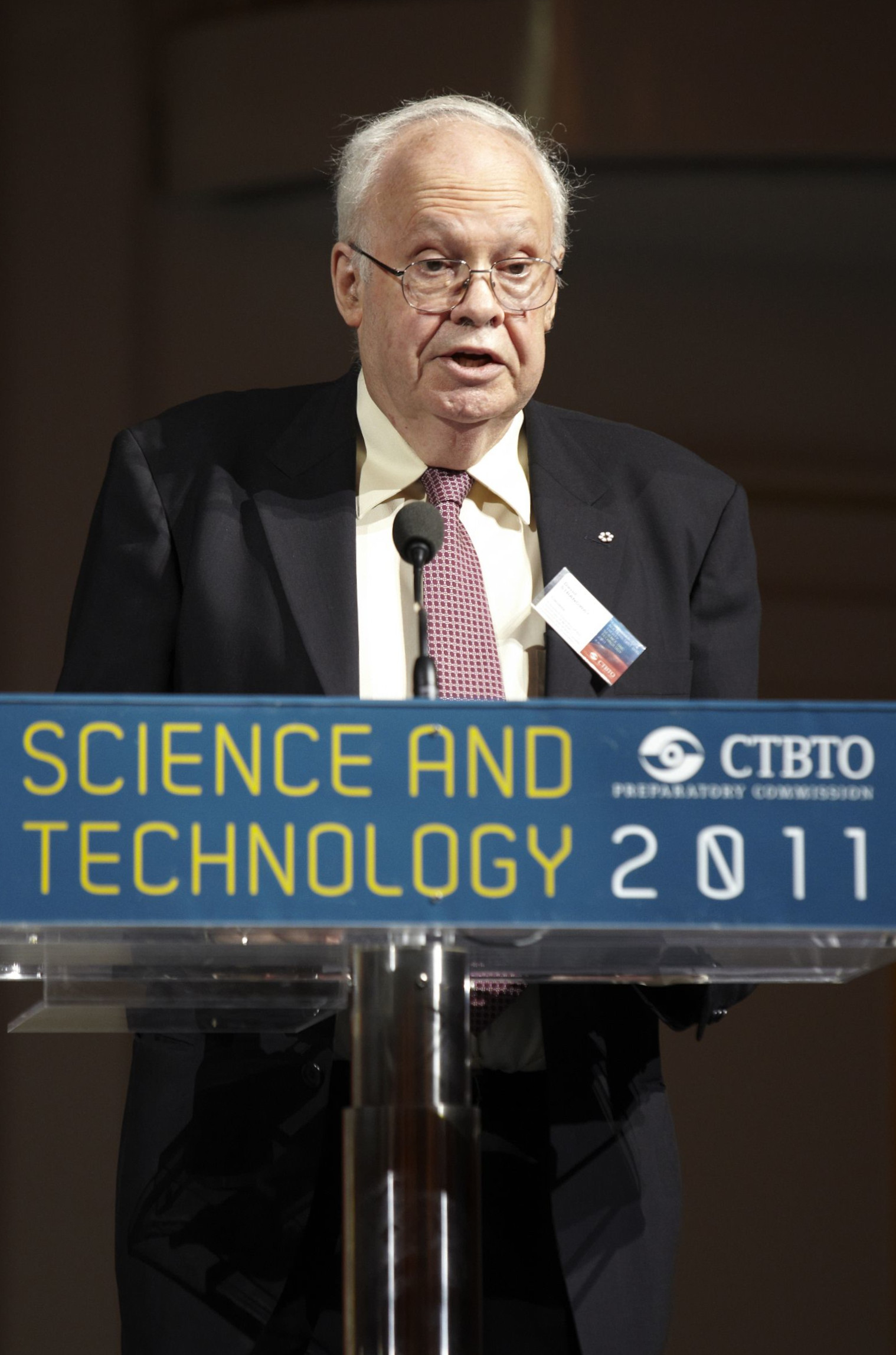 8 June 2011 - Vienna President Emeritus of the University of British Columbia David Strangway delivering a keynote lecture at the Science and Technology conference 2011. Copyright CTBTO Preparatory Commission Photographer: Marianne Weiss